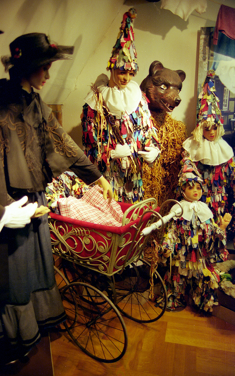 Display of German Carnival characters in the Faschenachtsmuseum in Buchen (Neckar-Odenwald-Kreis, Baden-Württemberg), Germany; this is the Strohbär (straw bear) costume from Buchen among several Huddelbätz, with pointed hats and white collars. Costumed in strips of coloured rags or ribbons, they wear small bells and make loud noises to drive out evil spirits.